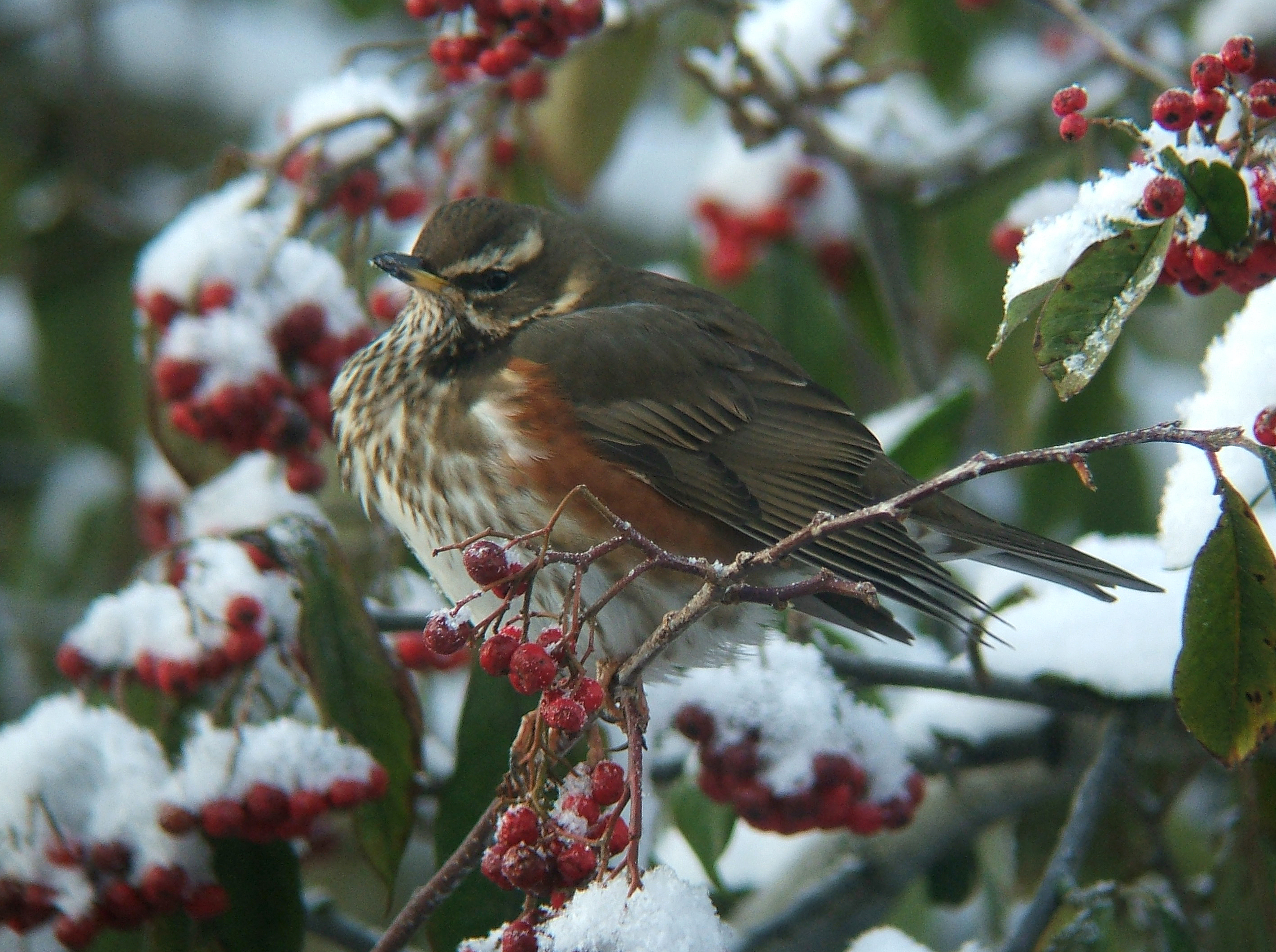 Turdus iliacus feeding on Cotoneaster frigidus berries in snow. Jesmond Dene, Northumberland, UK.